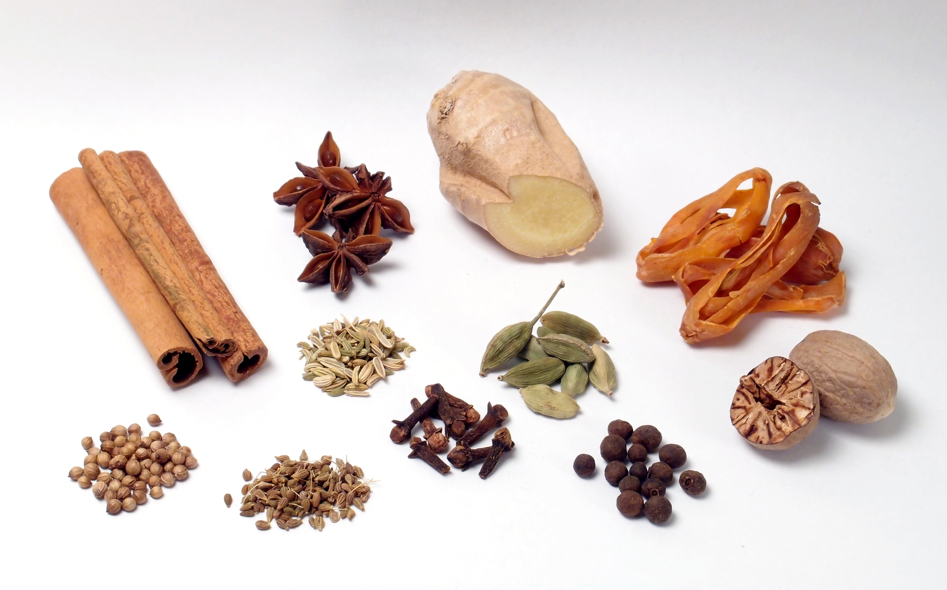 Various spices used in the preparation of gingerbread. Upper row from left to right: cinnamon, star aniseed, ginger, mace; centre: fennel seeds, green cardamom; lower row: coriander, aniseed, cloves, allspice, nutmeg.